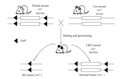 Model of conditional gene knockout technique in mice.